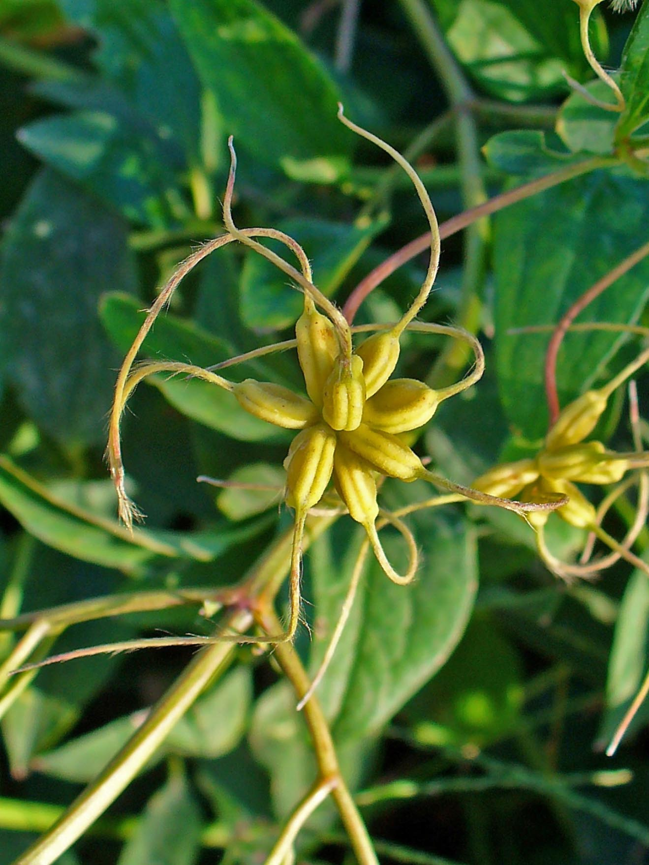 Clematis recta, Ranunculaceae, Erect Clematis, Ground Virginsbower, infrutescence. The fresh fresh, aerial parts of blooming plant are used in homeopathy as remedy: Clematis (Clem.)